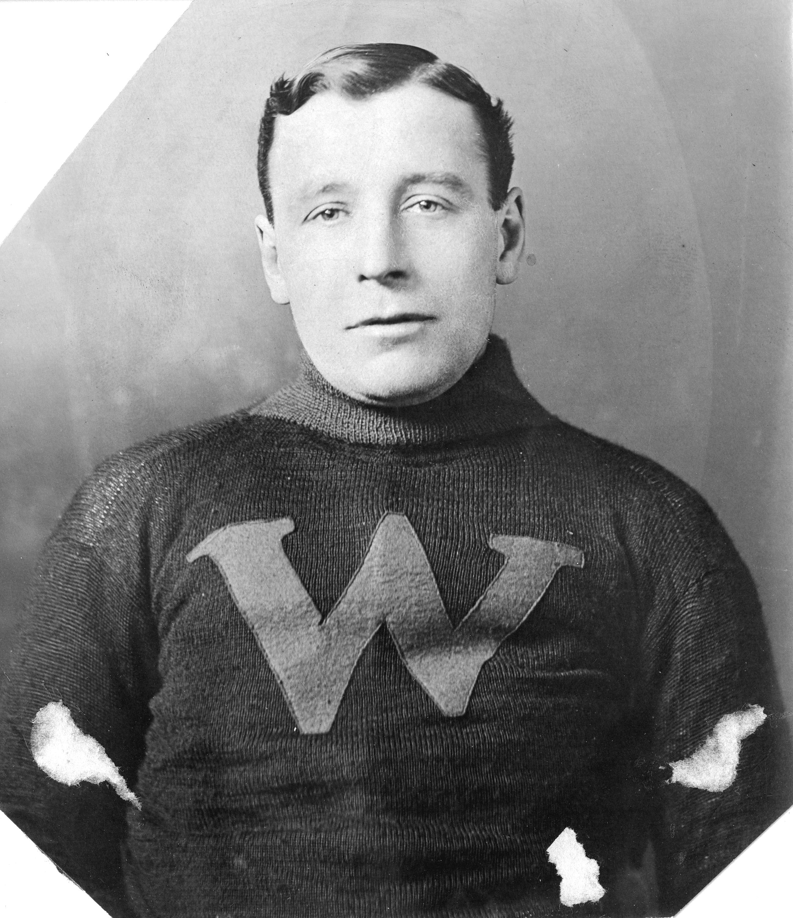 Photograph of ice hockey player James "Jimmy" Gardner, Team Manager New Westminster Hockey Team Champions P.C.H.A.